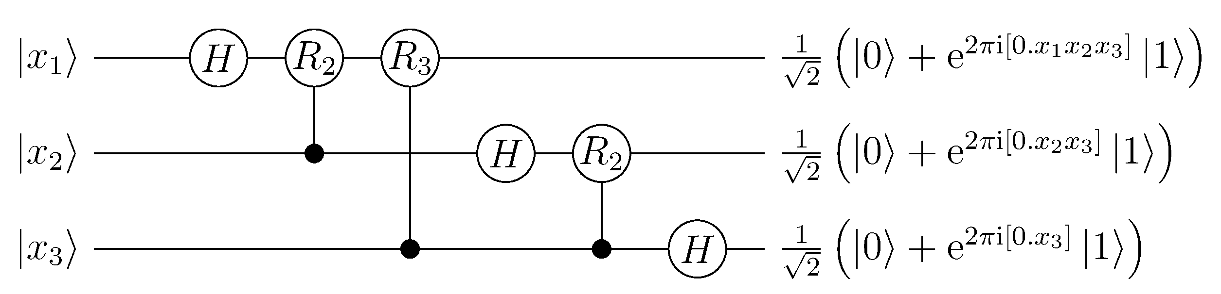 Quantum circuit for the Quantum-Fourier-Transform with 3 Qubits